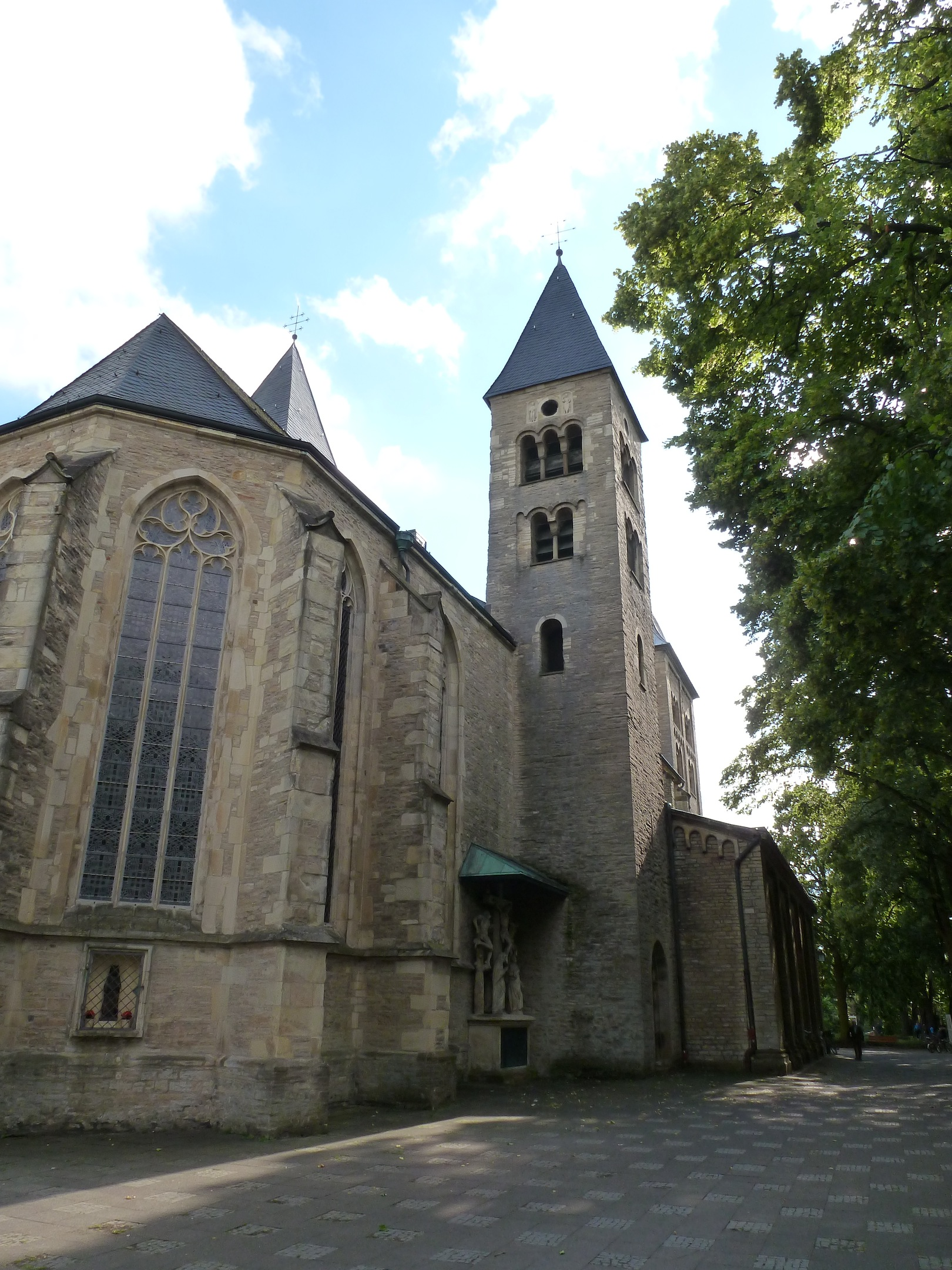 Nördlicher Ostturm